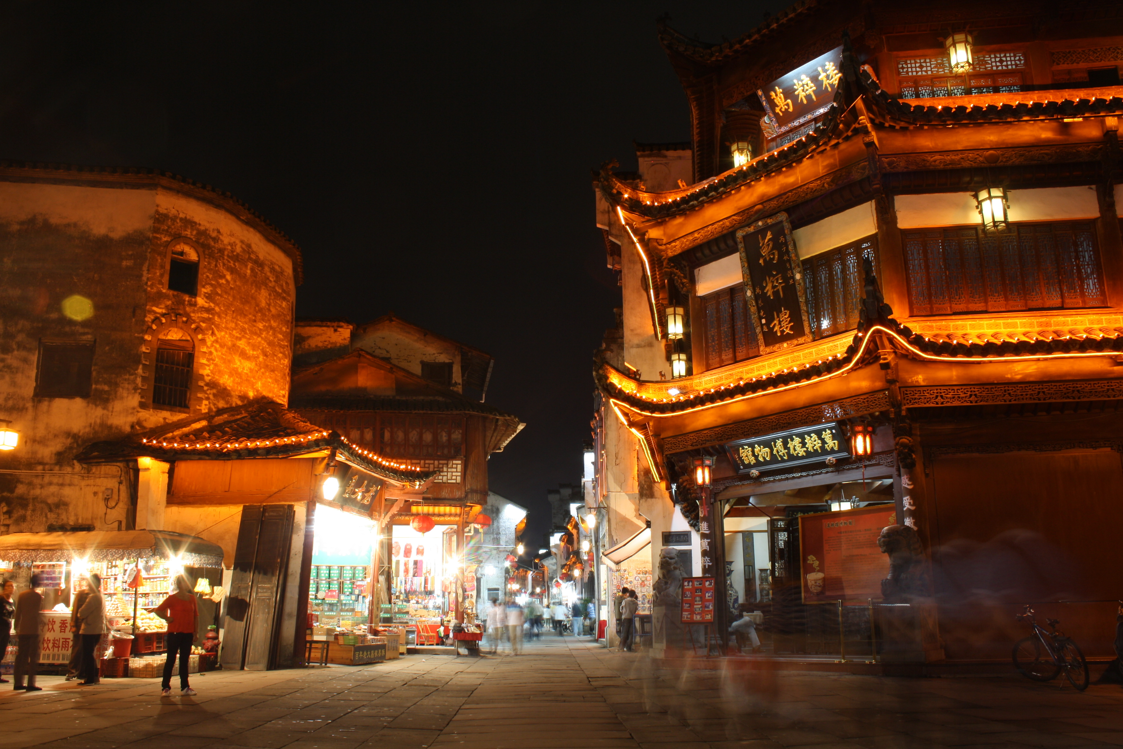 Street in the old part of Huangshan City, Huangshan (city), Anhui, PR China